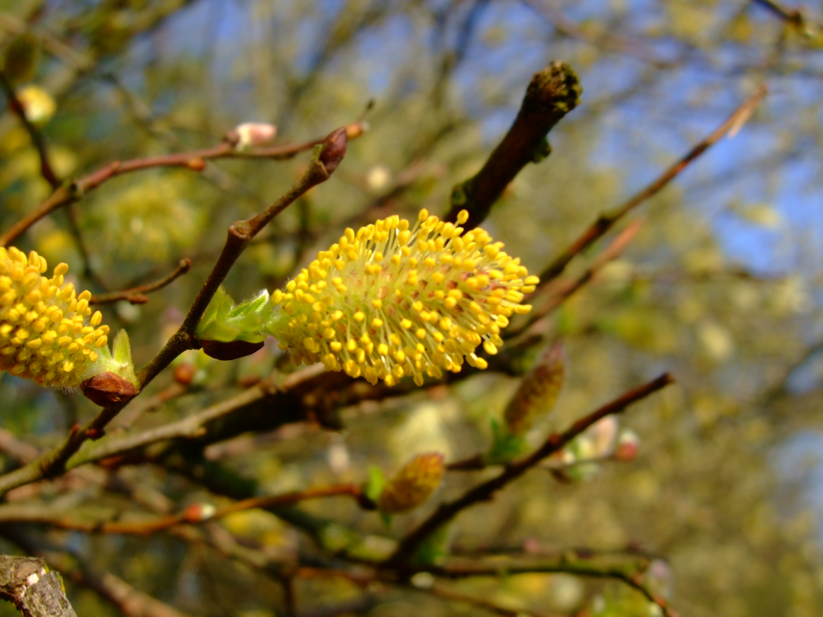 Male catkin of Salix cinerea with red coloured bracts